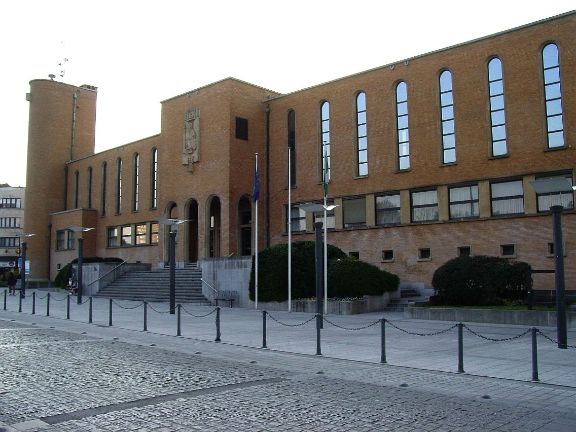 Evere town hall. Photograph taken by David Edgar on 27th March 2007.